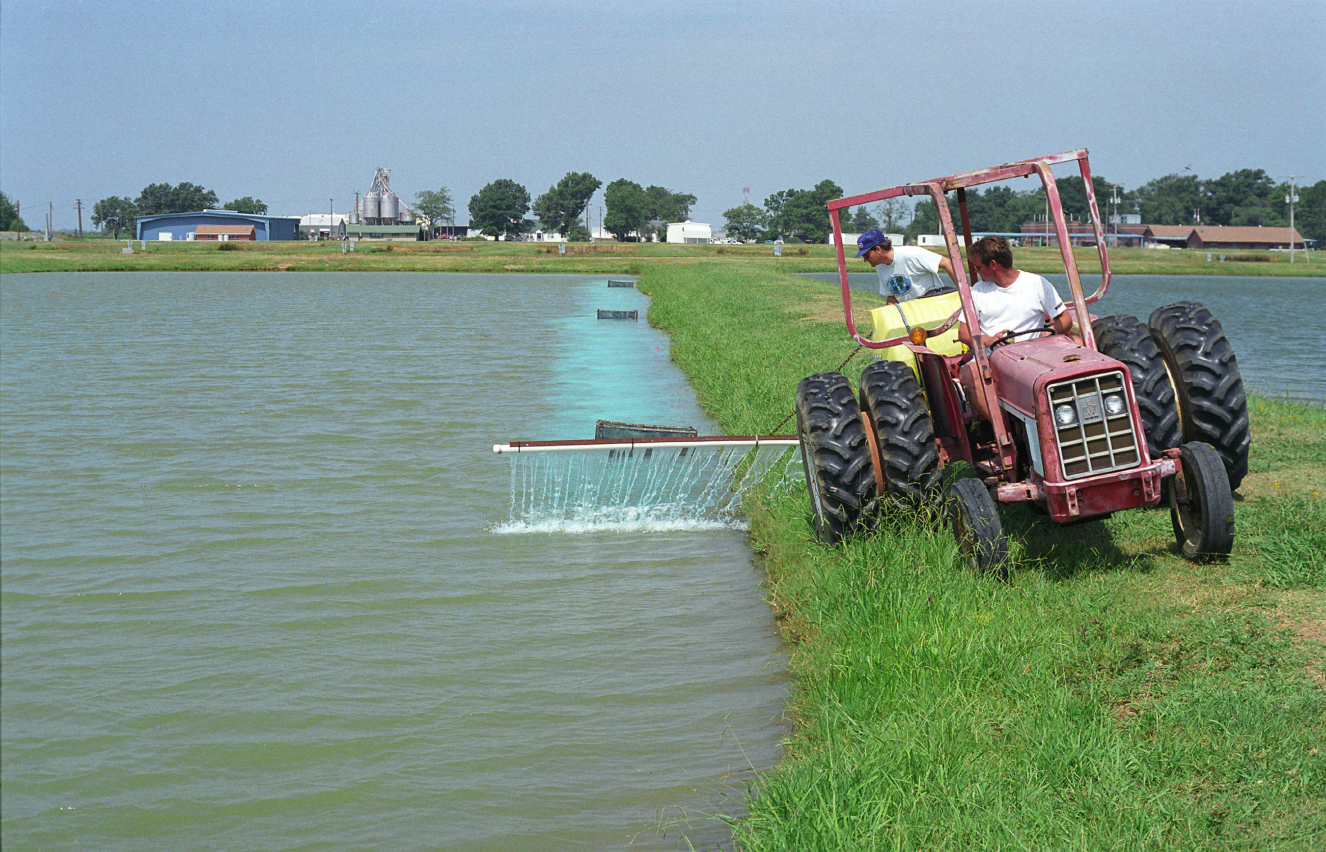 To kill parasite-harboring snails, fishery biologist Andrew Mitchell and maintenance worker Robert Ideker (driving tractor) apply a solution of copper sulfate and citric acid along the shoreline of an experimental catfish pond.